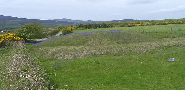 The Broogh Fort, Santon - bluebell time. A motte, a henge, a ringfort? The Broogh Fort could be any of these, but even though it is not wooded there is a fabulous display of native bluebells each spring.